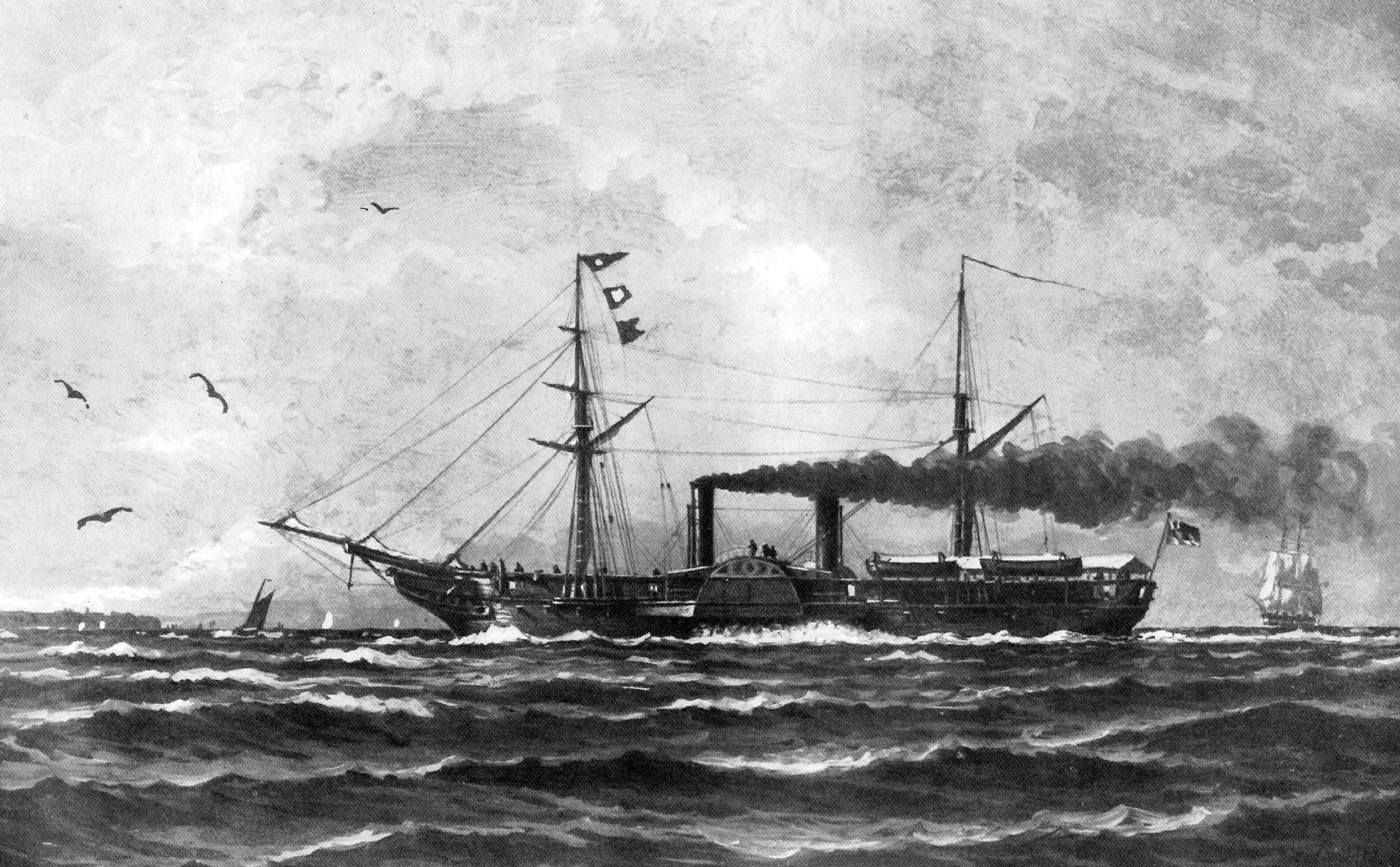 Side wheeler corvette GROSSHERZOG VON OLDENBURG (GRAND DUKE OF OLDENBURG) of the German Reichsflotte approximately 1850. Painting by naval artist Lüder Arenhold (1854-1915) round about 1905